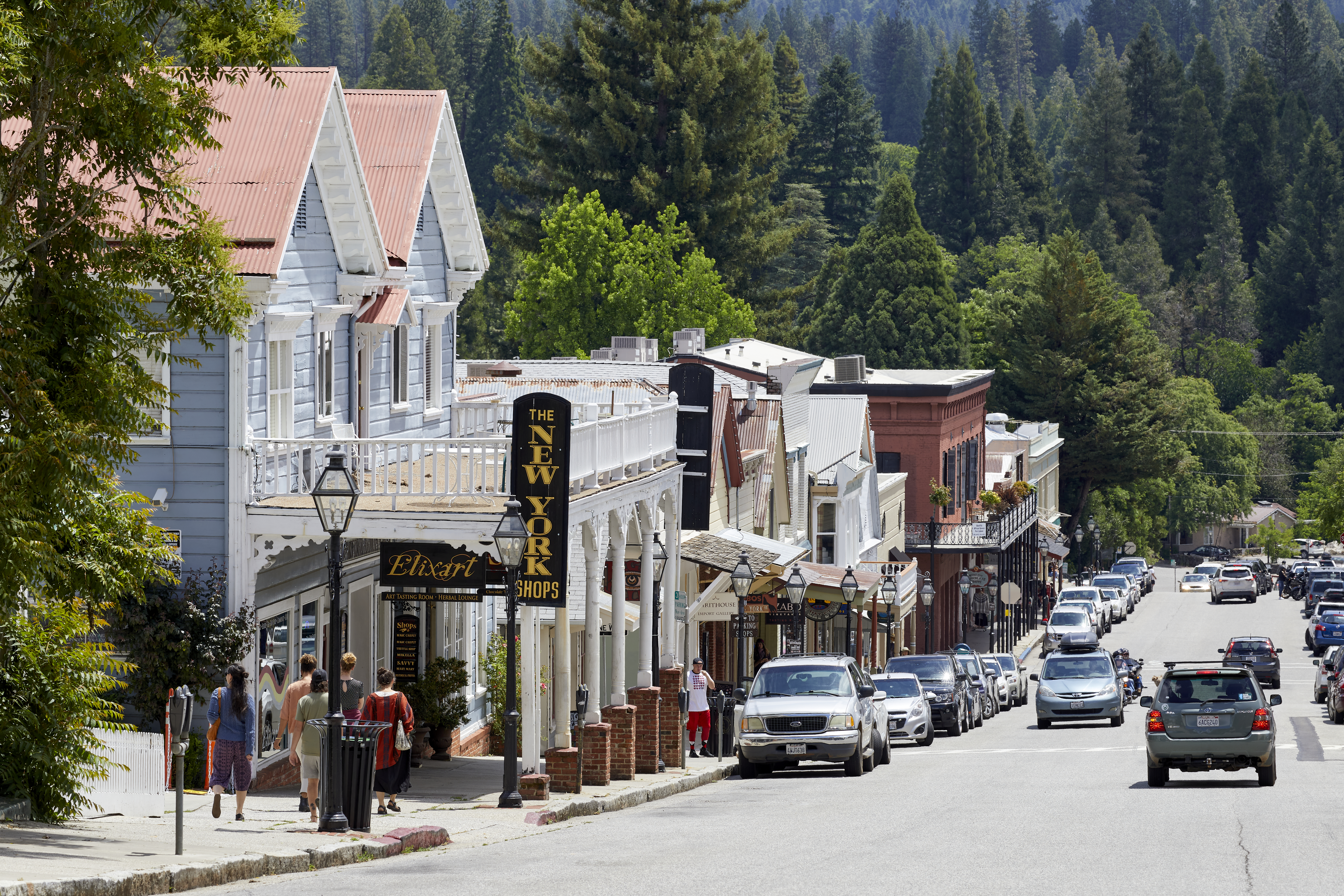 Broad Street in Nevada City, California, on May 31, 2020. The historic buildings along Broad Street in the former mining town of Nevada City are part of the“Nevada City Downtown Historic District”. The city was founded as “Nevada” by European immigrants in 1849, during the California Gold Rush. In 1850–51, it was the most important mining town in the state. In 1864, the word “City” was added to the name to relieve confusion with the nearby state of Nevada.